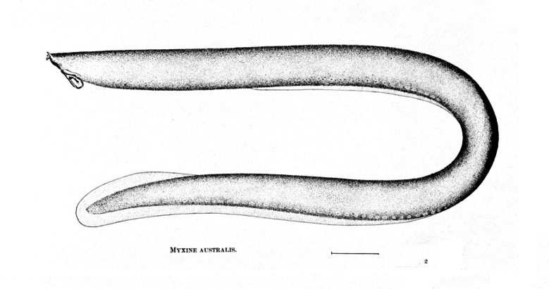 Myxine australis, Jenyns. Drawing by A. H. Baldwin, from specimen collected by ALBATROSS at S. Lat. 48 37, W. Long. 65 46, at 58 fathoms.